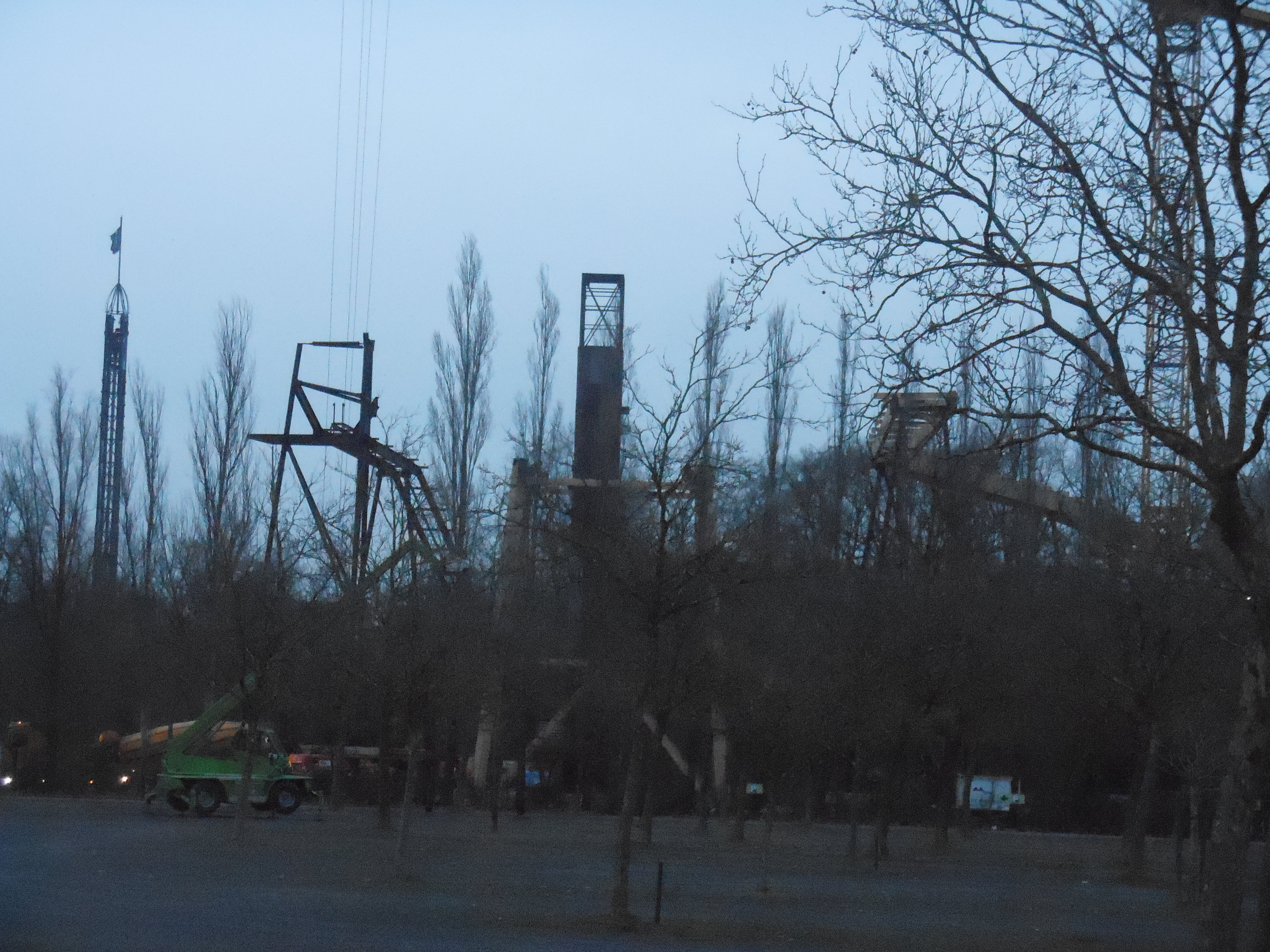 Construction so far of the dueling alpine coaster Dawson Duel at Bellewaerde (Belgium) on the 27th of January 2017.